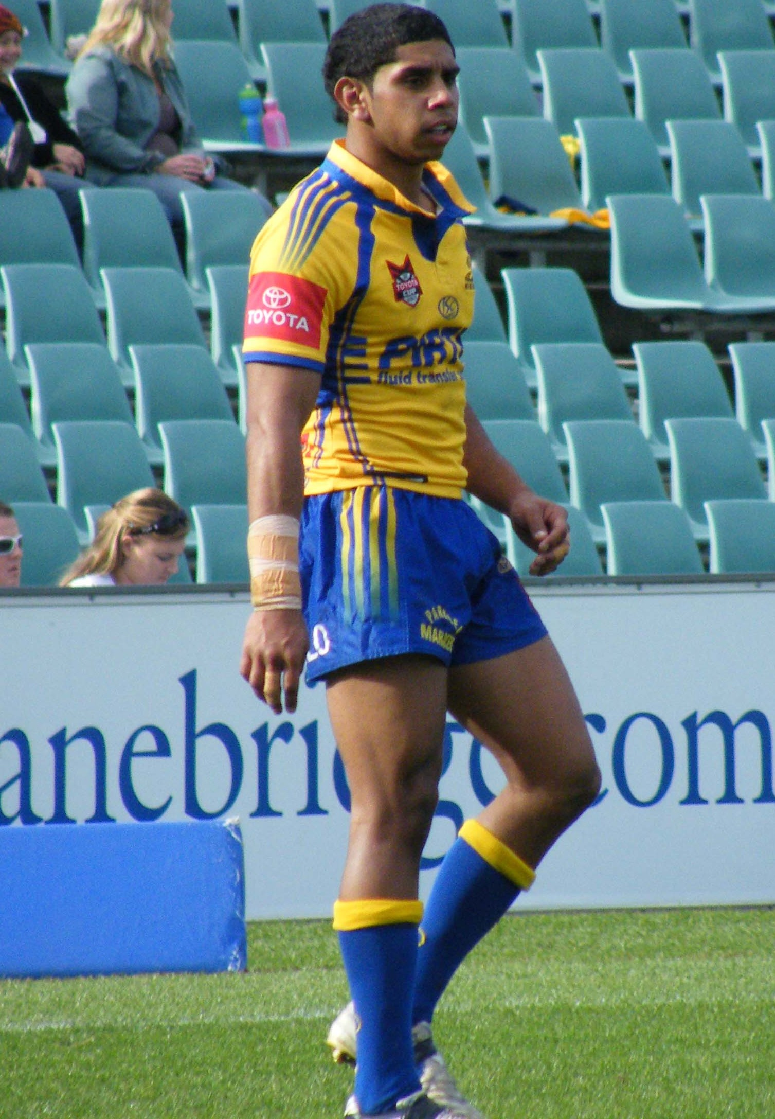 Albert Kelly